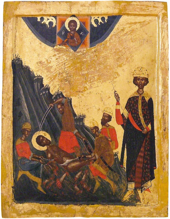 James Intercisus, II Half of XVI Century, St Nicholas Bolnichki Church